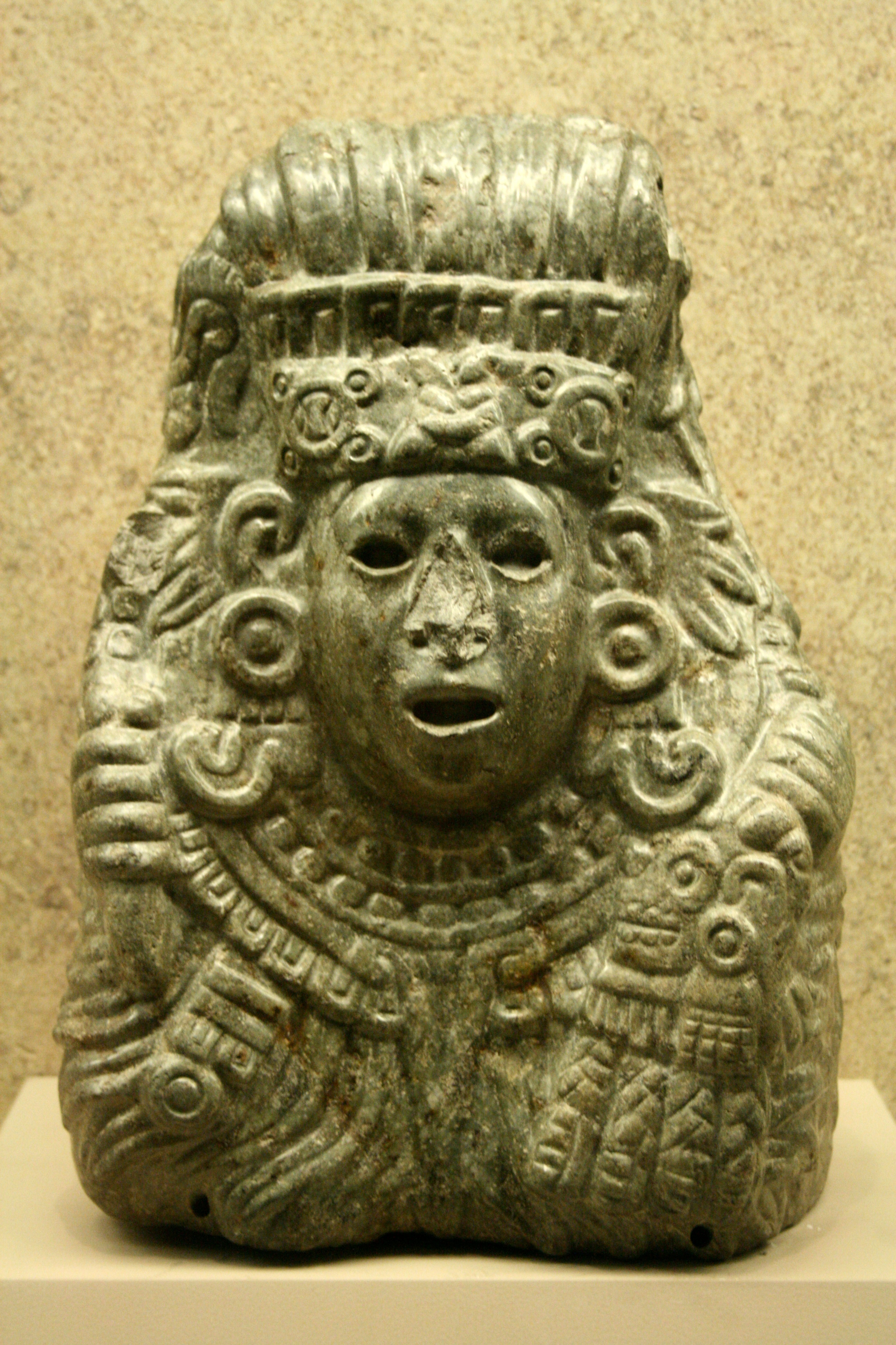 Stone bust of god Quetzalcoatl. Aztec. Postclassic period (AD 1325-1521). Curved shell ear ornaments vharacterisitc of the god